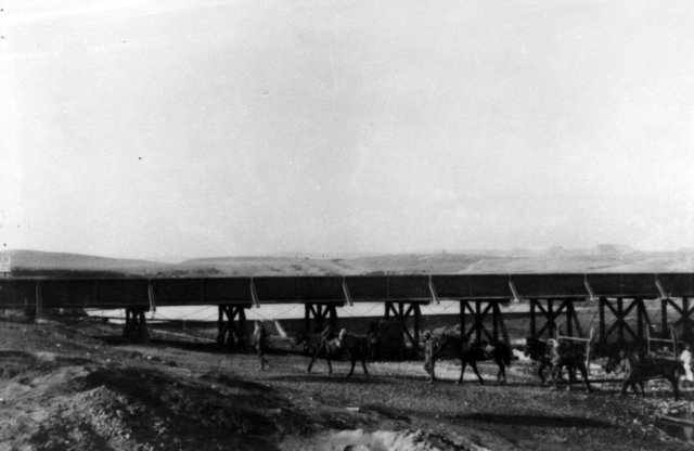 Photo of railway bridge over Wadi Ghuzzee, Palestine.